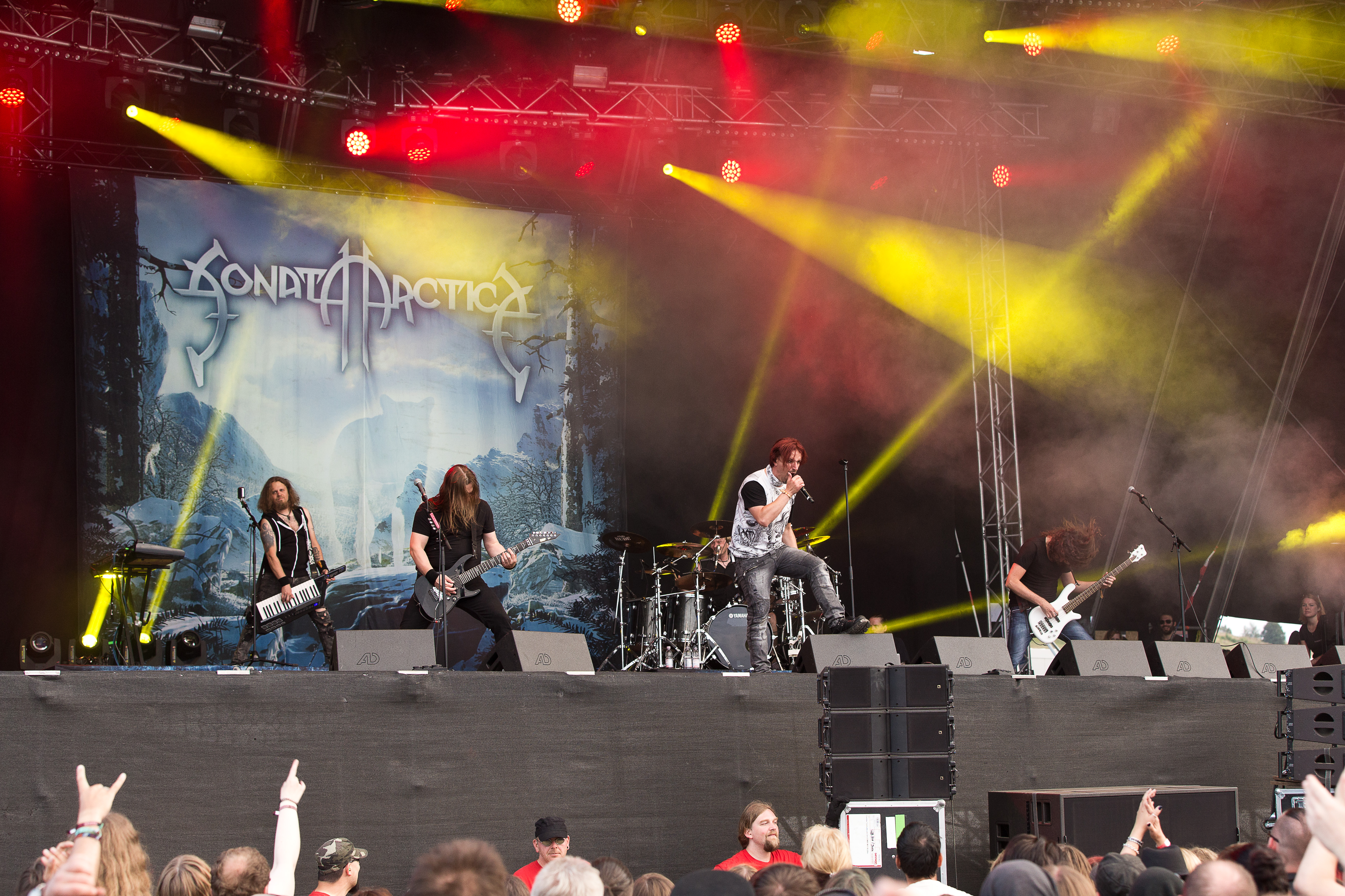 The Finnish power metal band Sonata Arctica at the Rockharz Open Air 2016 in Ballenstedt/Germany.